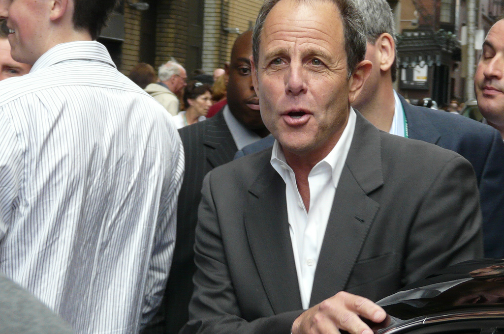 Photo of the producer/director Marc Abraham on the Flash of Genius movie premiere.